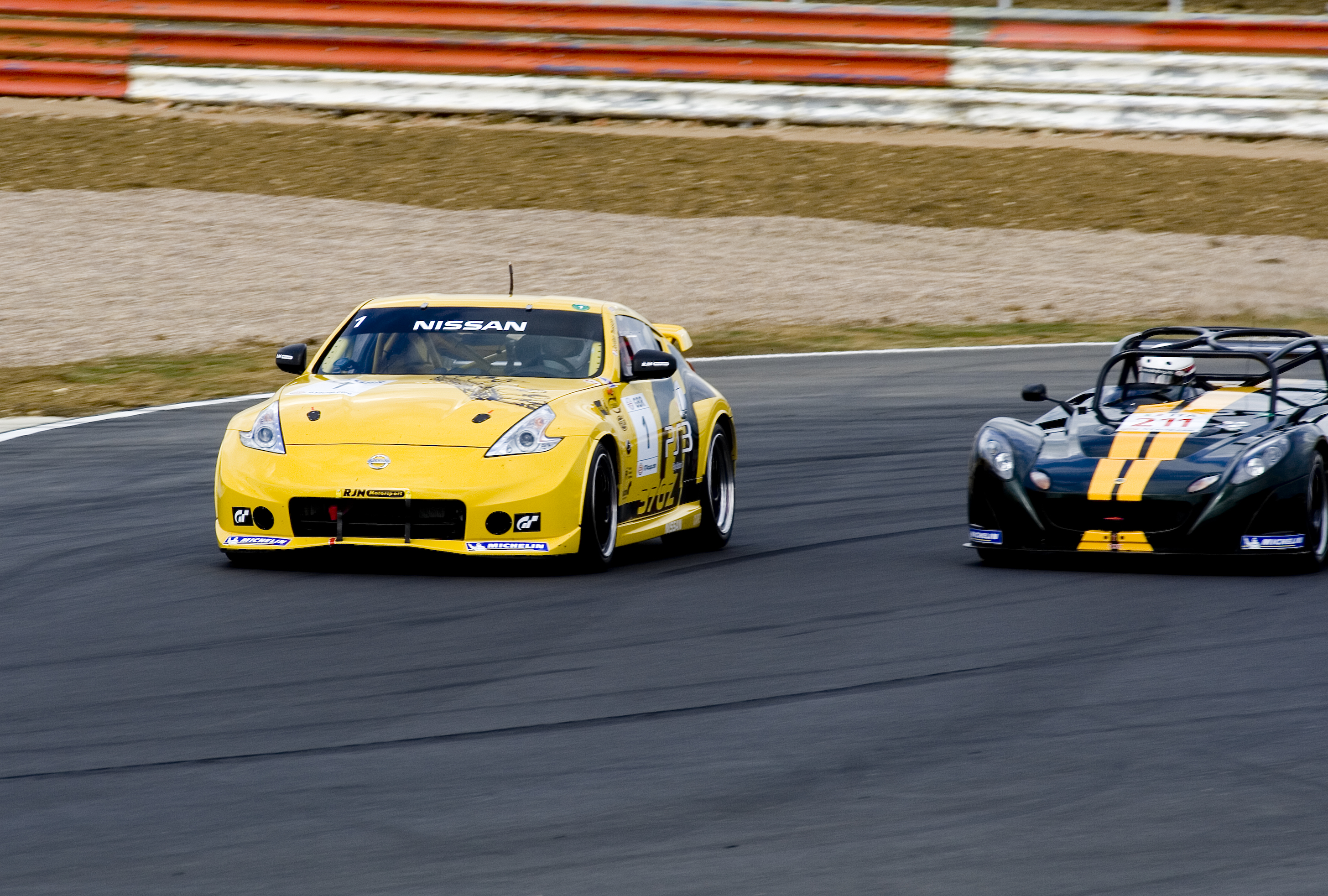 GT4 European Cup Race 1 - Nissan 370Z (RJN) & Lotus 2-Eleven (Scuderia Guidic) GT Academy 2010 Winner.